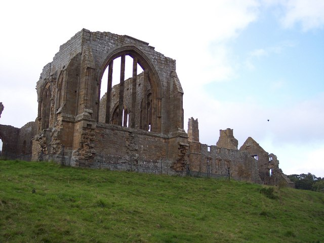 Egglestone Abbey